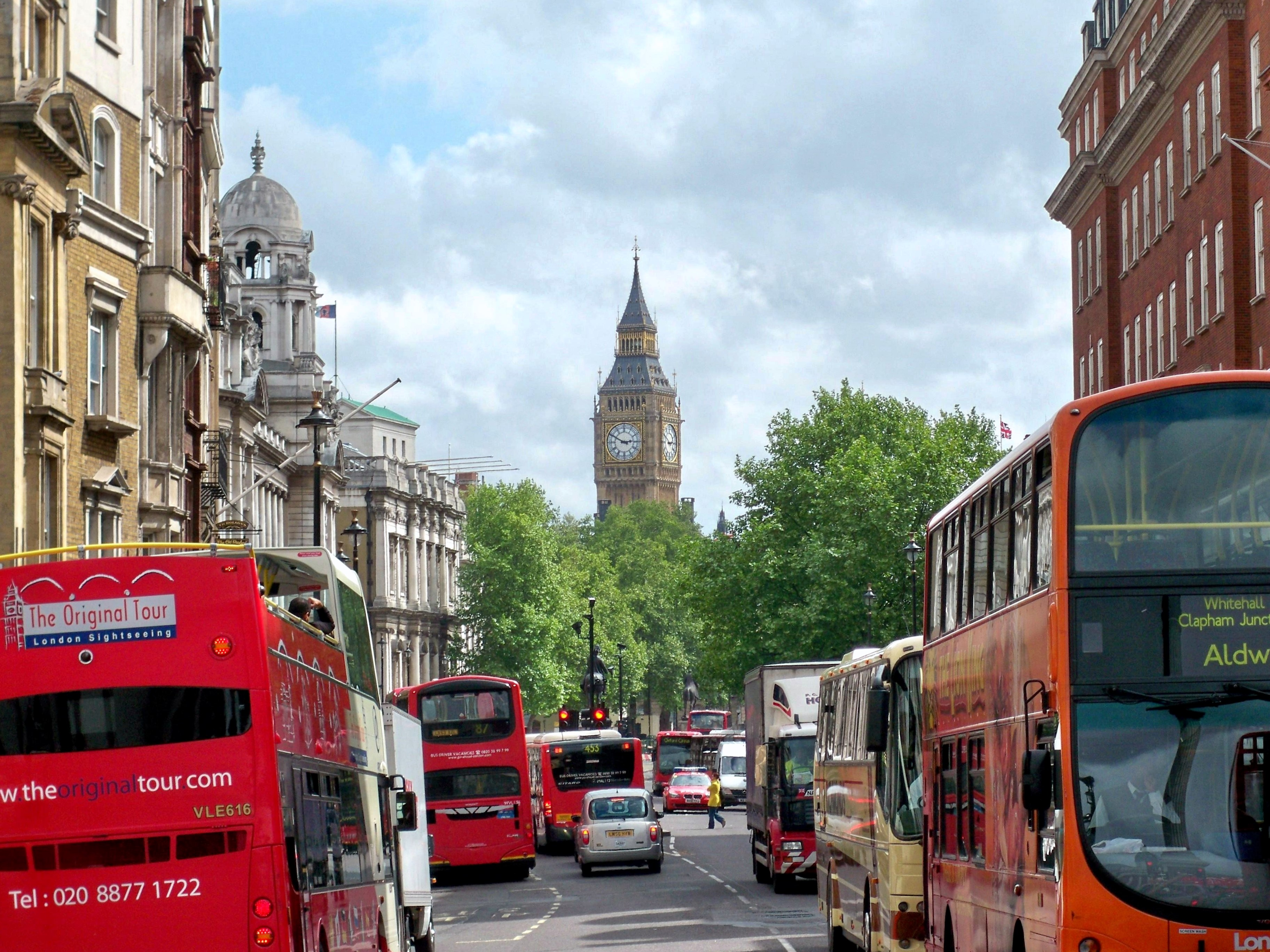 Traffic on Whitehall in Westminster.